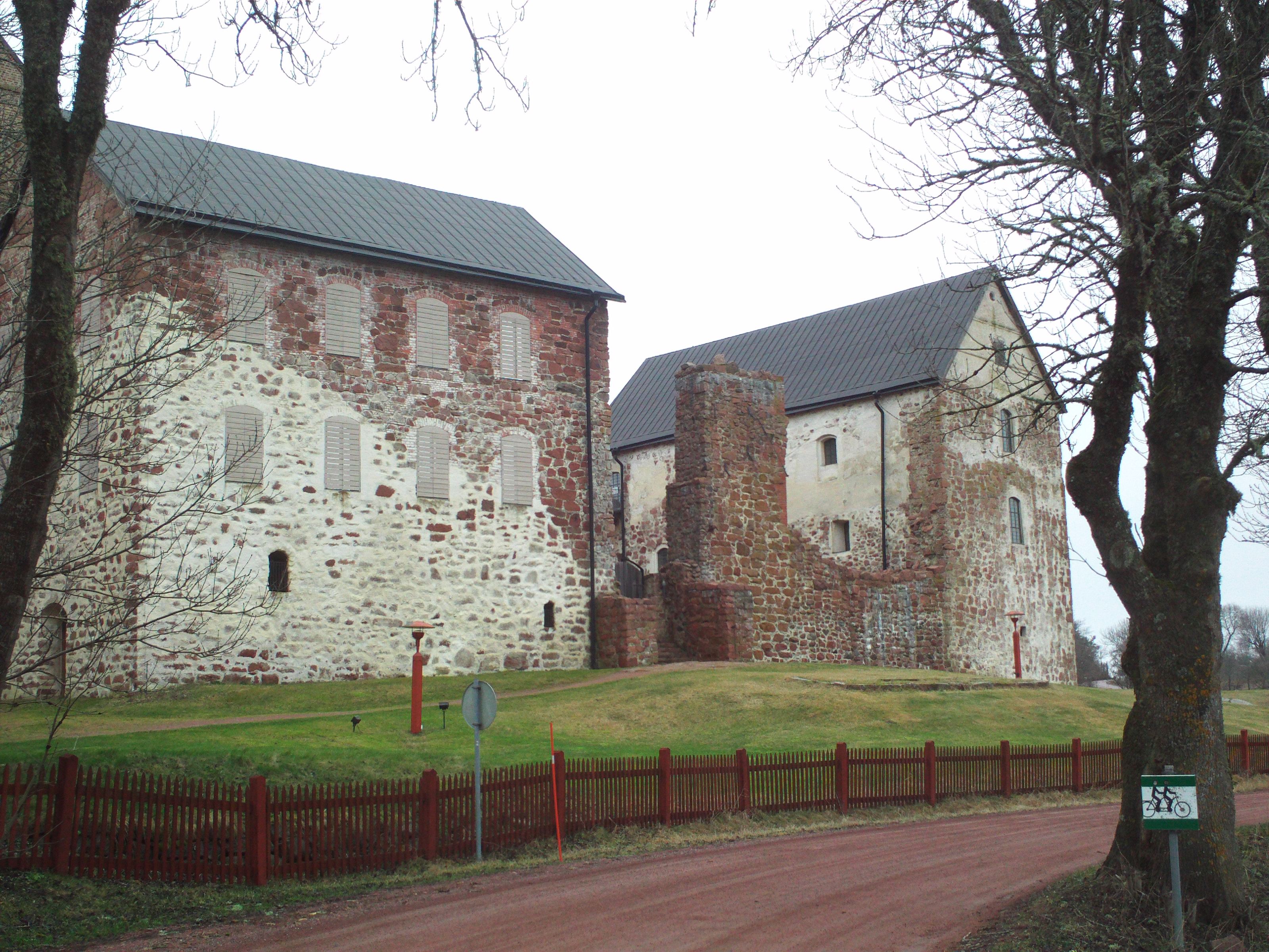 Kastelholm castle.